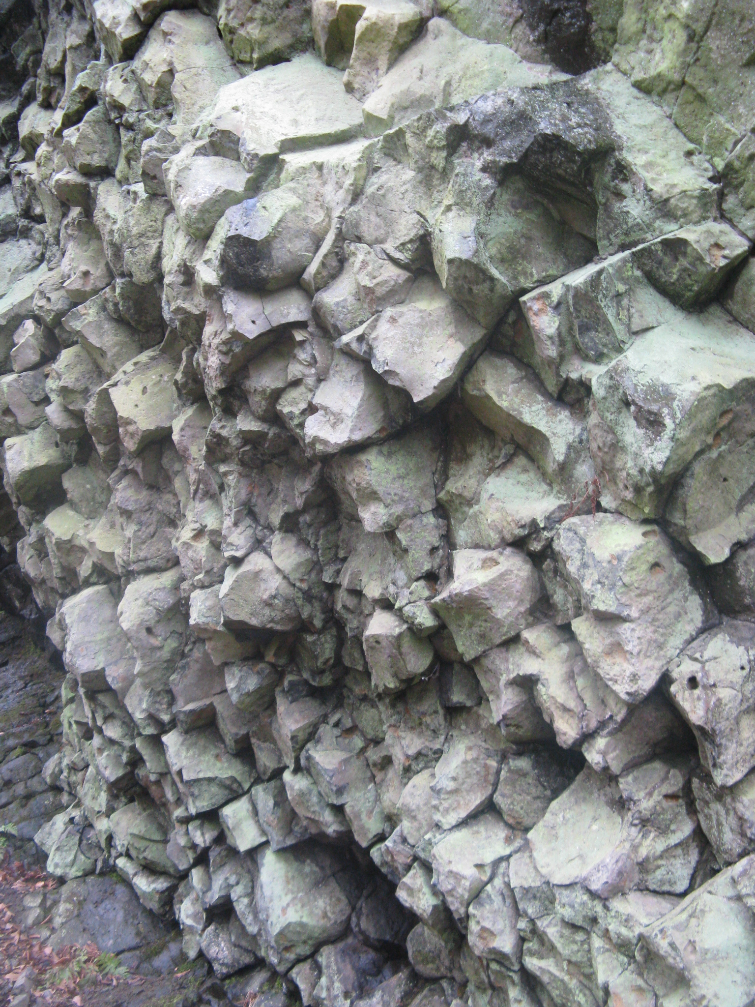 Beilstein, basalt formation, Jossgrund, Spessart/Germany